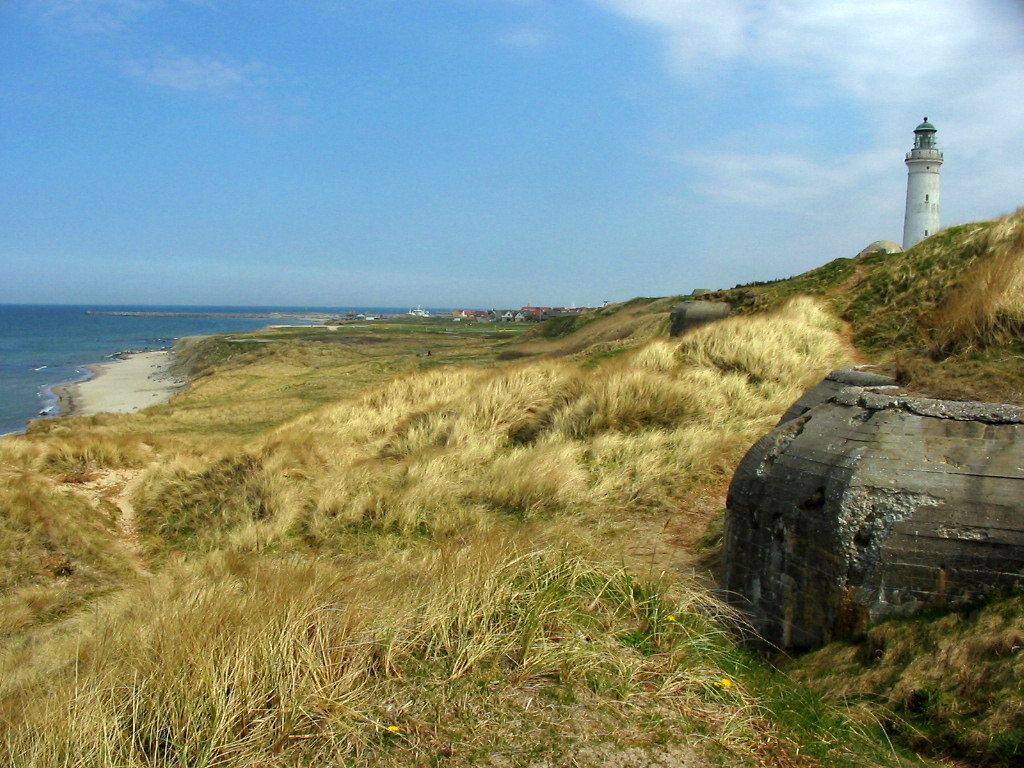 bunker / lighthouse / cliff / beach / North Sea in Hirtshals, Denmark, 2005